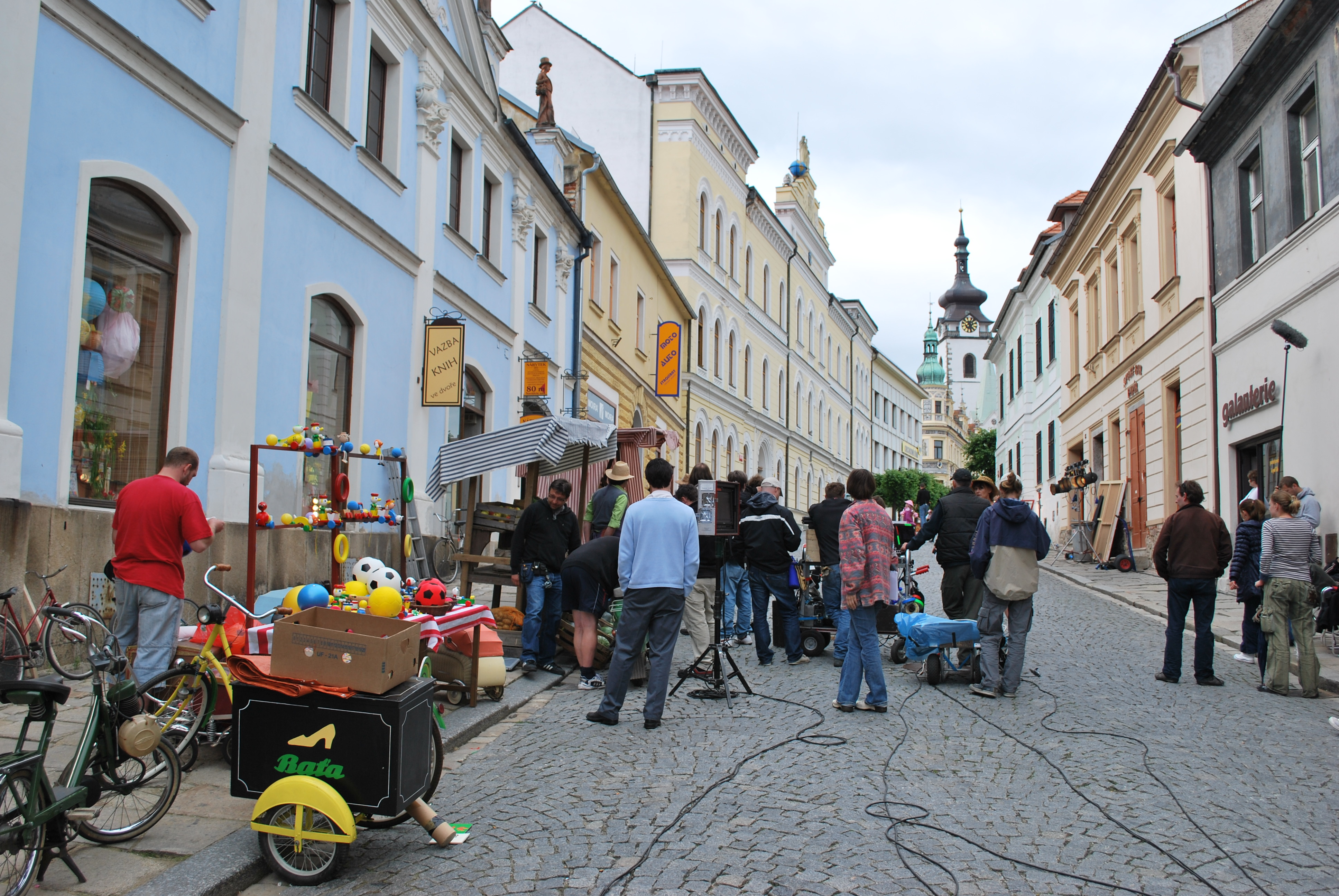 Film-making on one Písek street of movie "V Peřinách". Písek town, Czech Republic